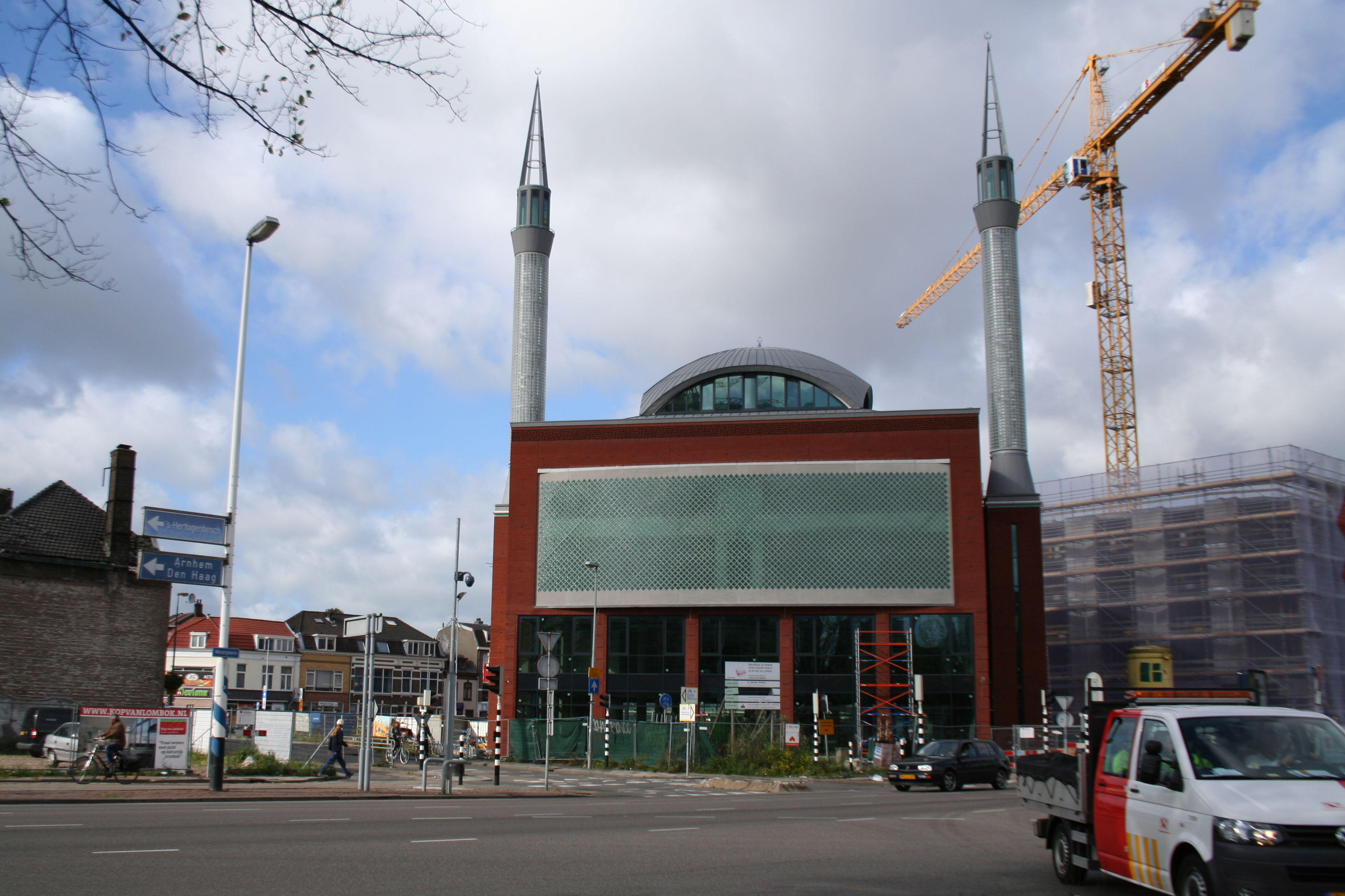 The largest mosque in the Netherlands, the Ulu mosque next to the Utrecht Central trainstation in the neighborhood 'Lombok'. The mosque is unique in the world for the facilities it has for non-muslims.